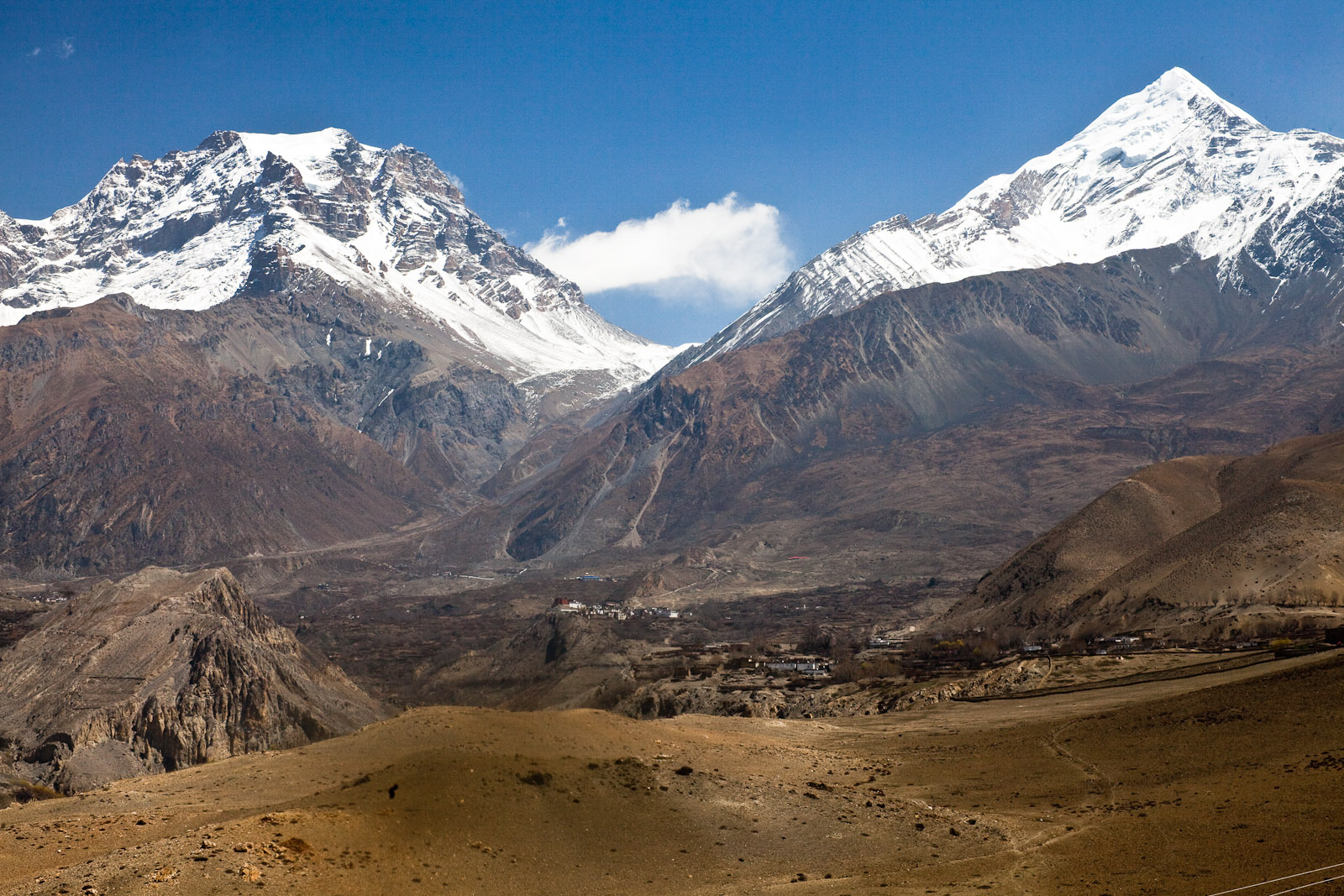 Looking back up the Jhong Khola valley to Jharkot, Muktinath, and the Thorong La pass